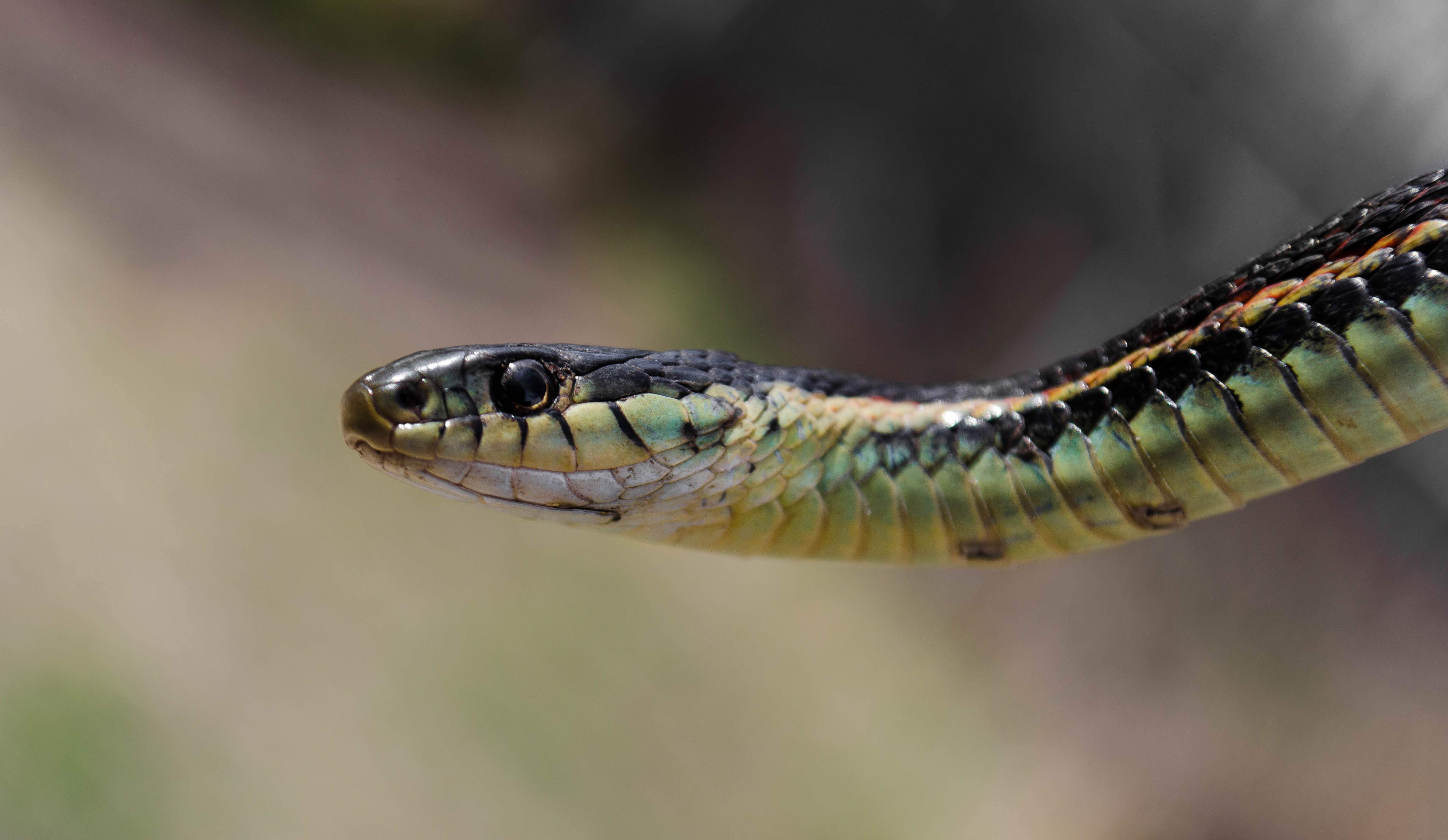 Red-sided garter snake Thamnophis sirtalis in Manitoba, Canada